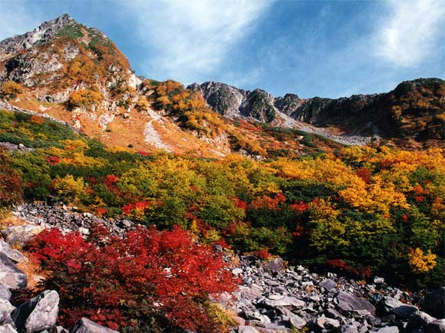 Coloured leaves at Karasawa Cirque in the Hotaka Mountains, Japan